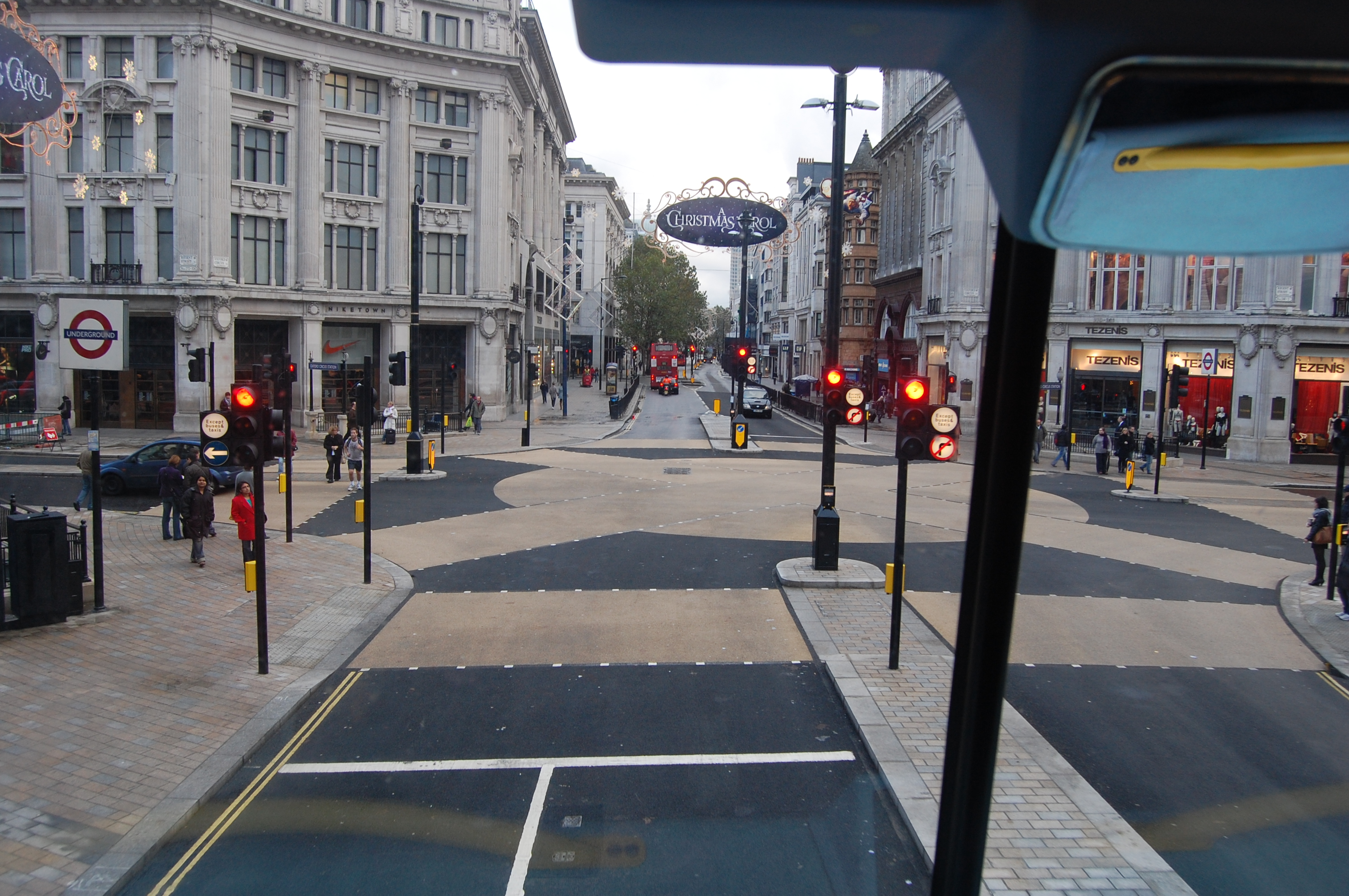 Oxford Circus